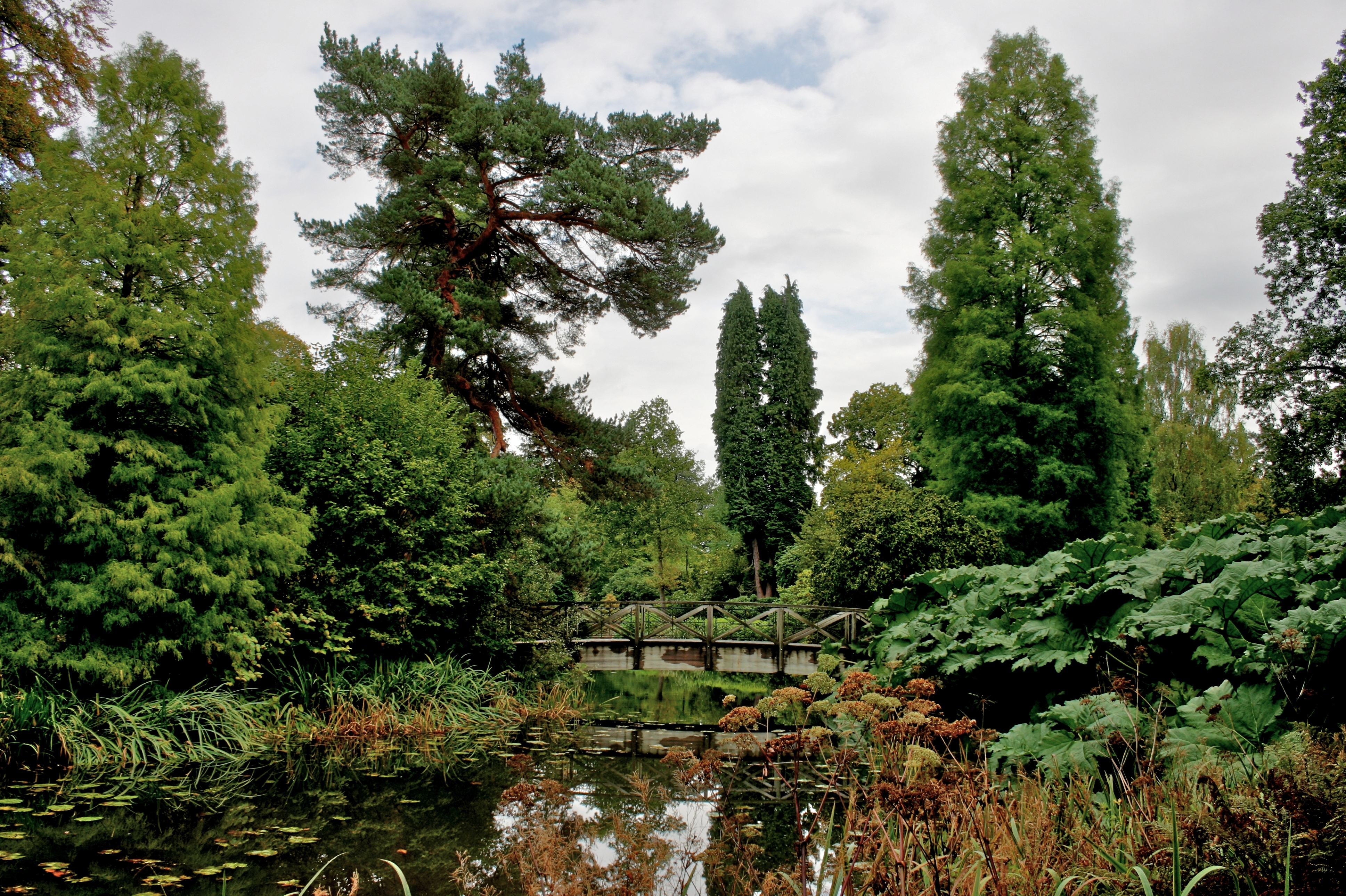 Bridge and pond ("Golden Brook") at Tatton Park, Cheshire, UK